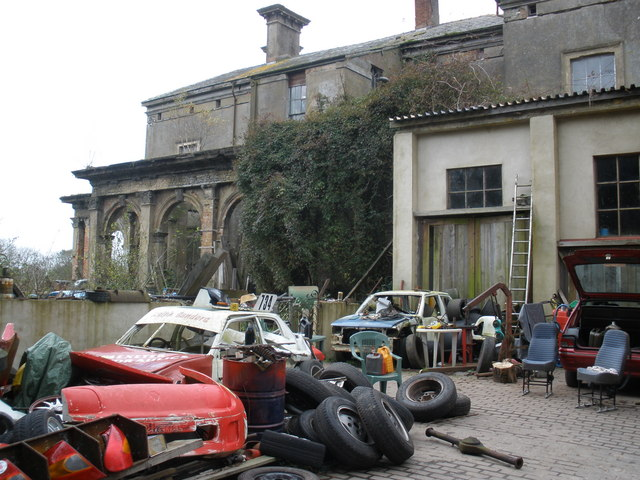 Scrapyard, at Blackborough House